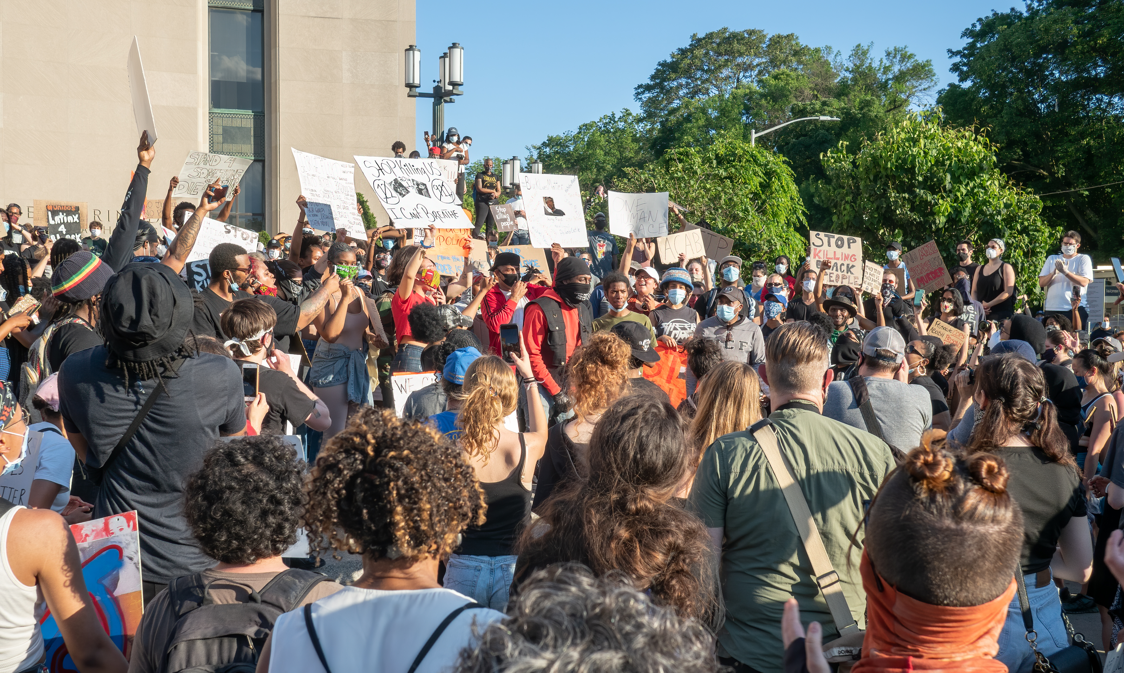 Rally in Grand Army Plaza after the death of George Floyd